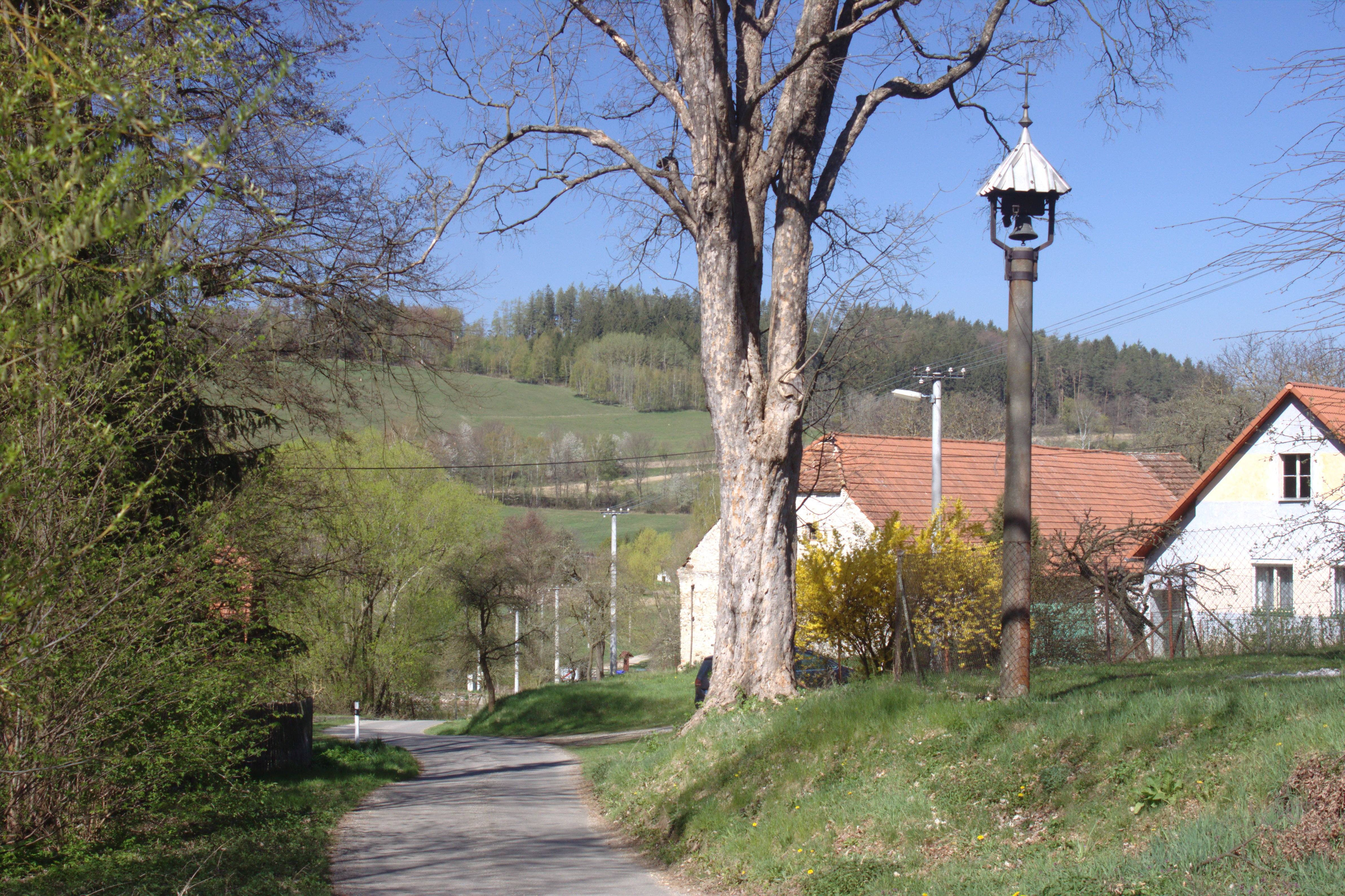 This photograph was created as a part of Wikiexpedition Mladá Vožice, a project supported by Wikimedia Foundation grant.